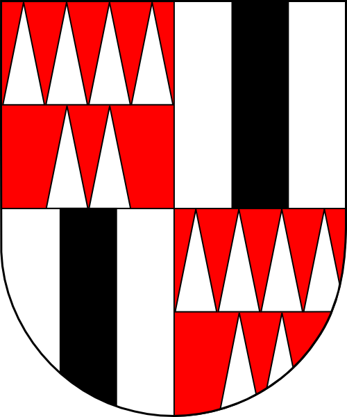 Coat of arms (shield only) of Jan Mráz ze Skočic, bishop of Lubus, Germany (1392 - 1397), bishop of Olomouc, Czech Republic (1397 - 1403). Arms used in Olomouc.